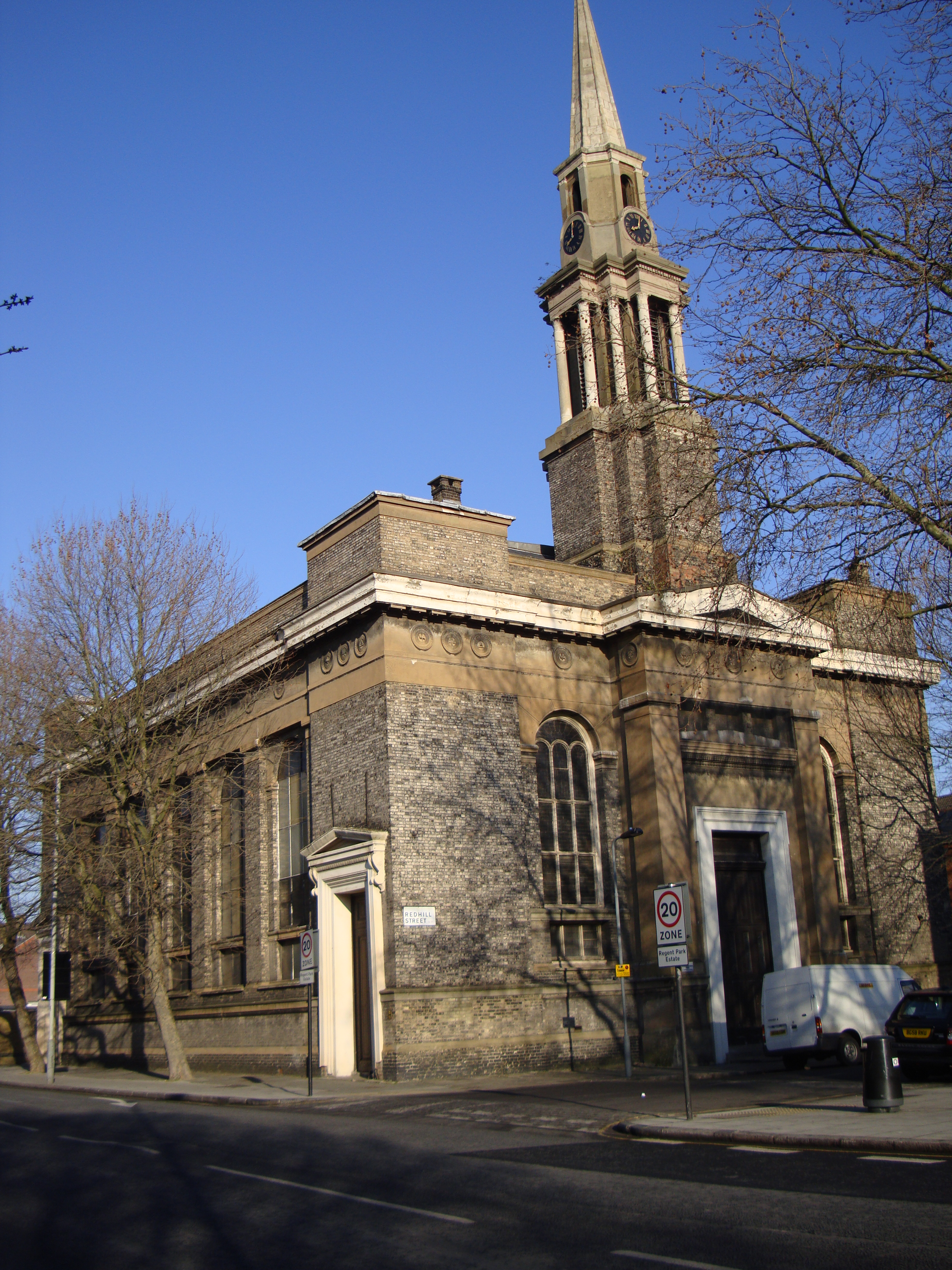 Antiochian Orthodox Cathedral of St George, Albany Street, London NW1. Built in 1836 as Christ Church parish church.